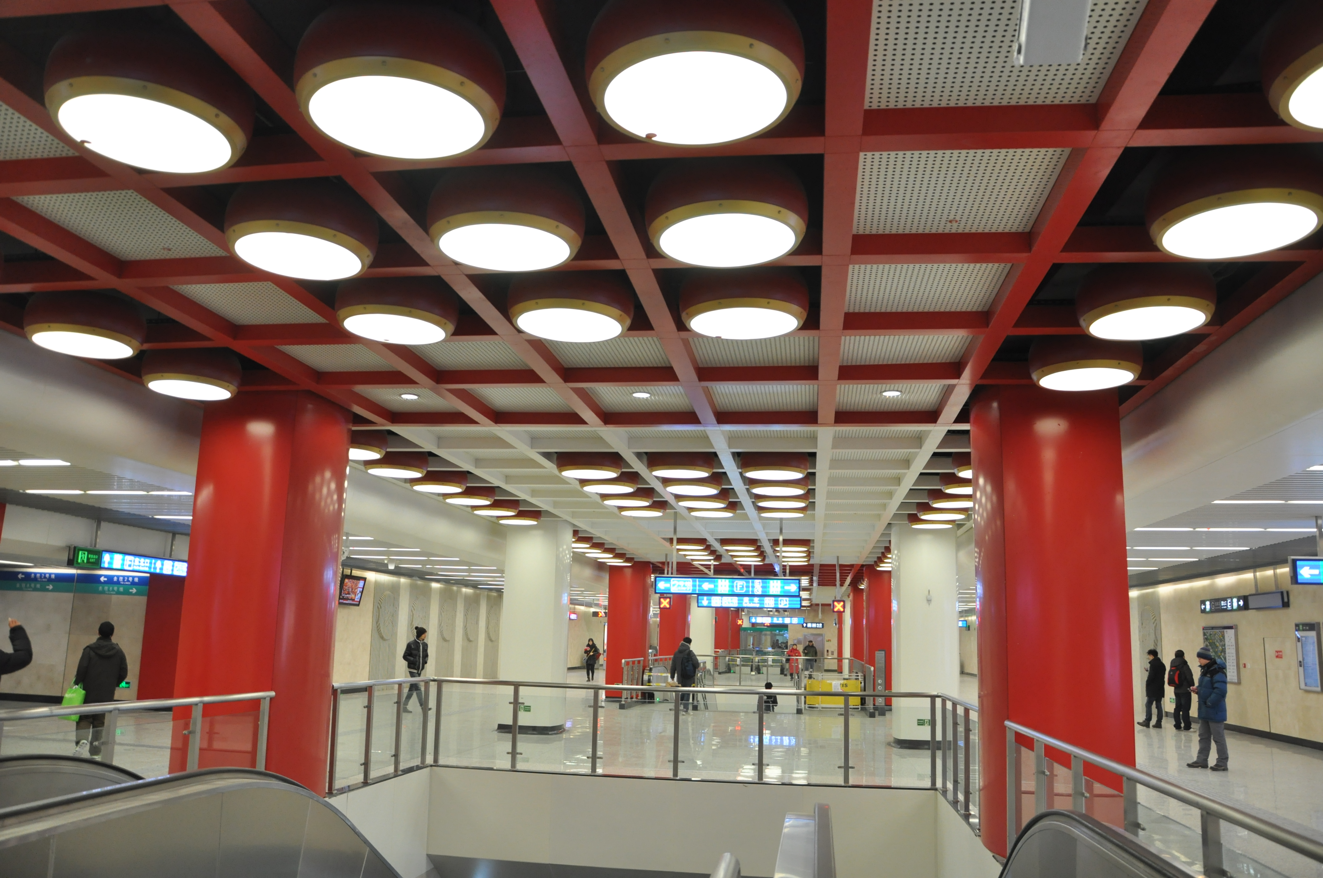 Station hall of Guloudajie station, Line 8, Beijing Subway.